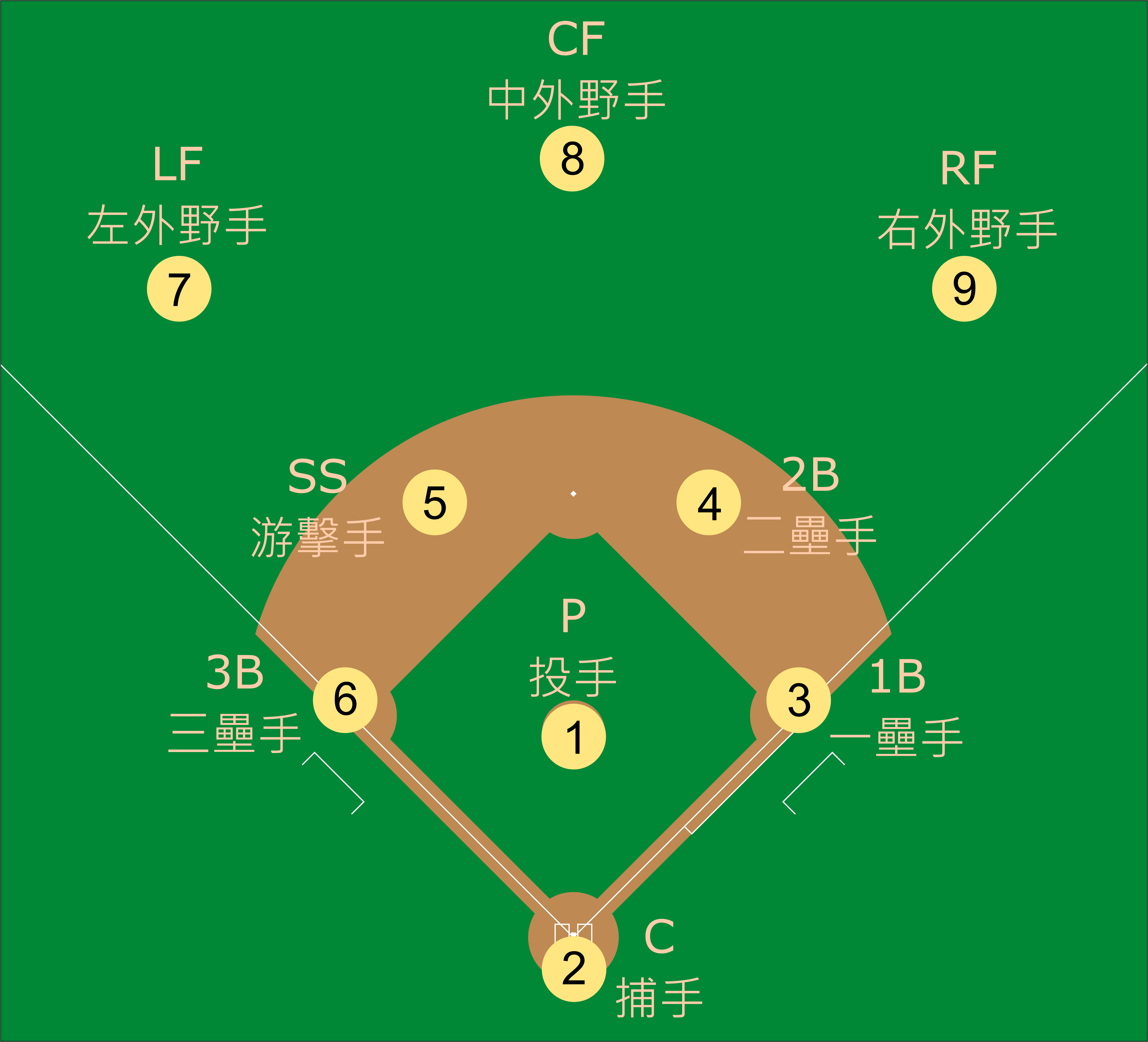 Diagram of the positions on a baseball field